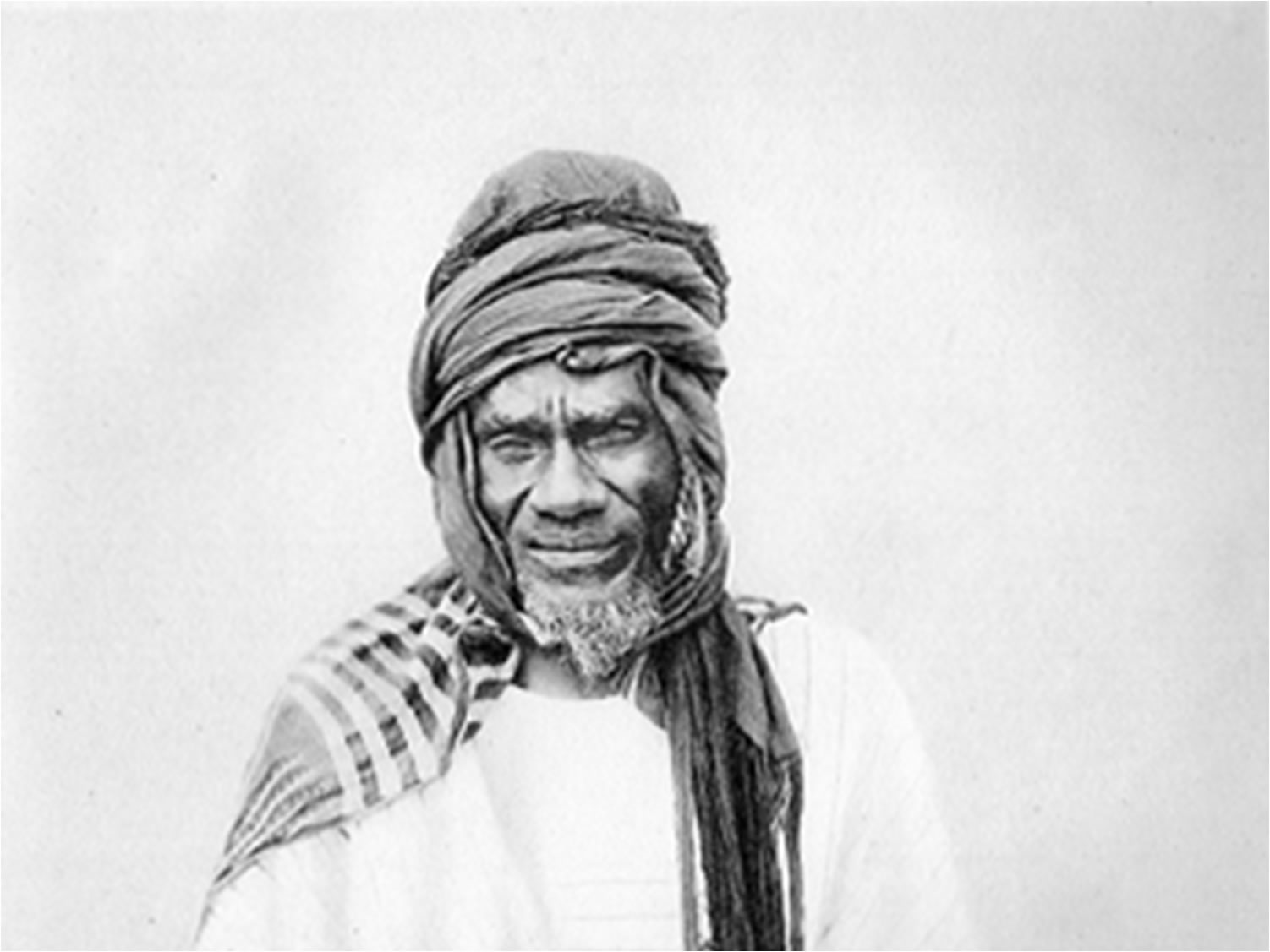 L'Almamy Samory Touré